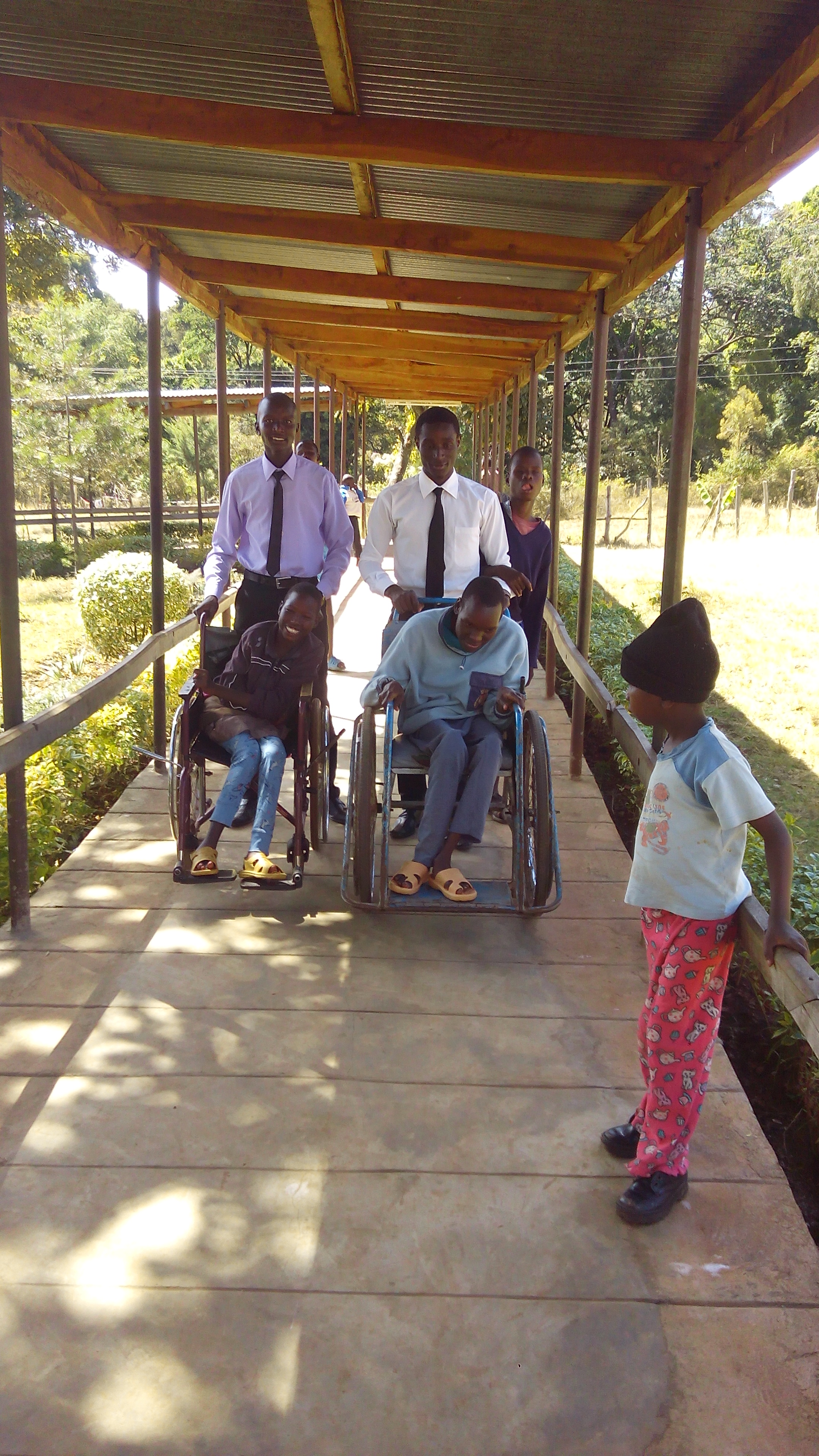 i am a special needs education teacher. i specialise in deafblind education. these kids are beautiful and need to be loved. i am proud to be able to help them This is an image of "African people at work" from Kenya